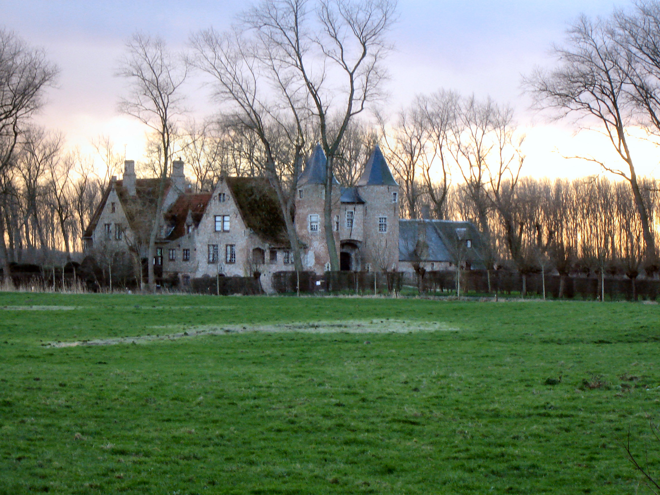 Castle of Oostkerke in Oostkerke, Damme, West-Flanders, Belgium.